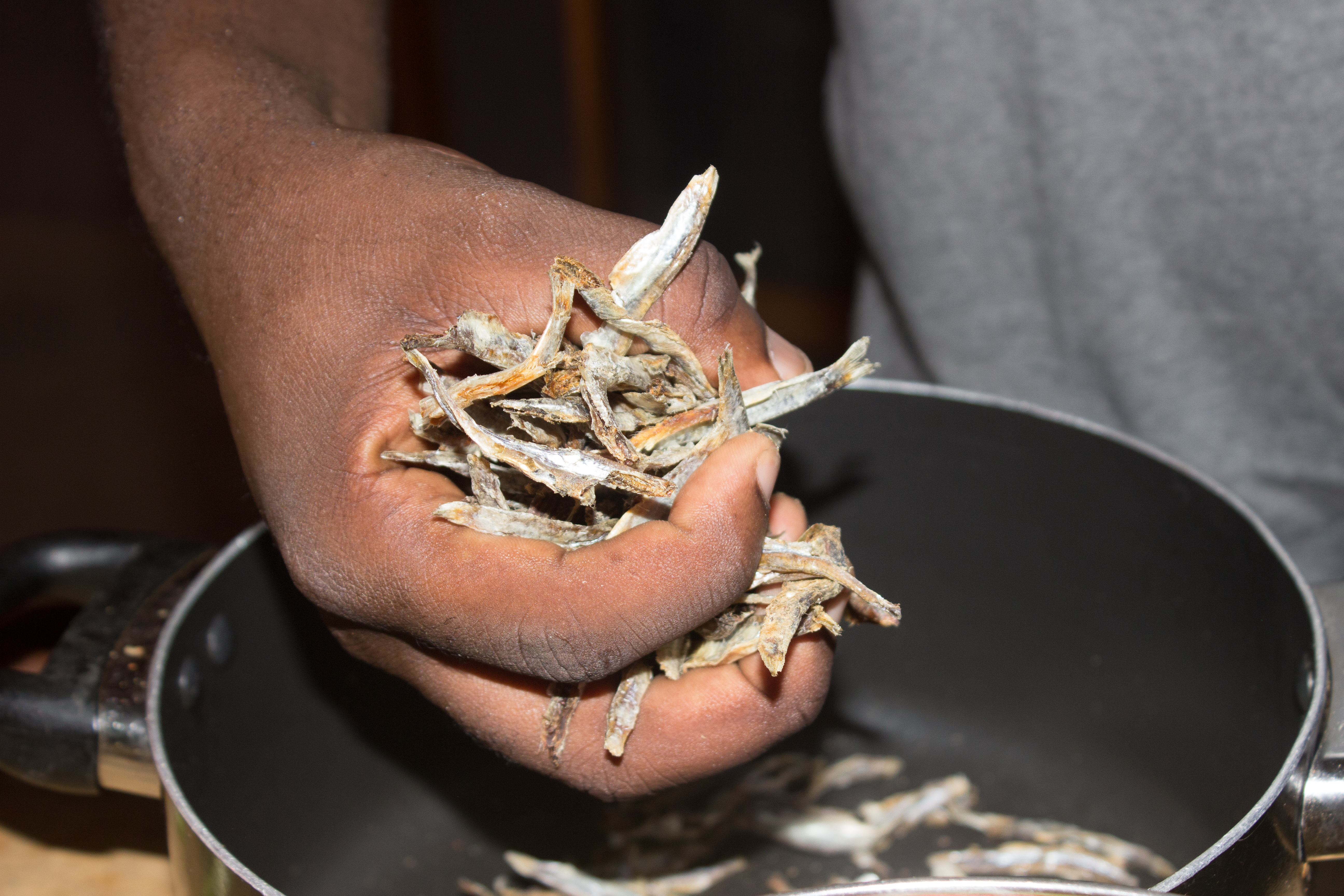 Anchovies being transferred into a bowl with the hand. This is an image of food from Ghana